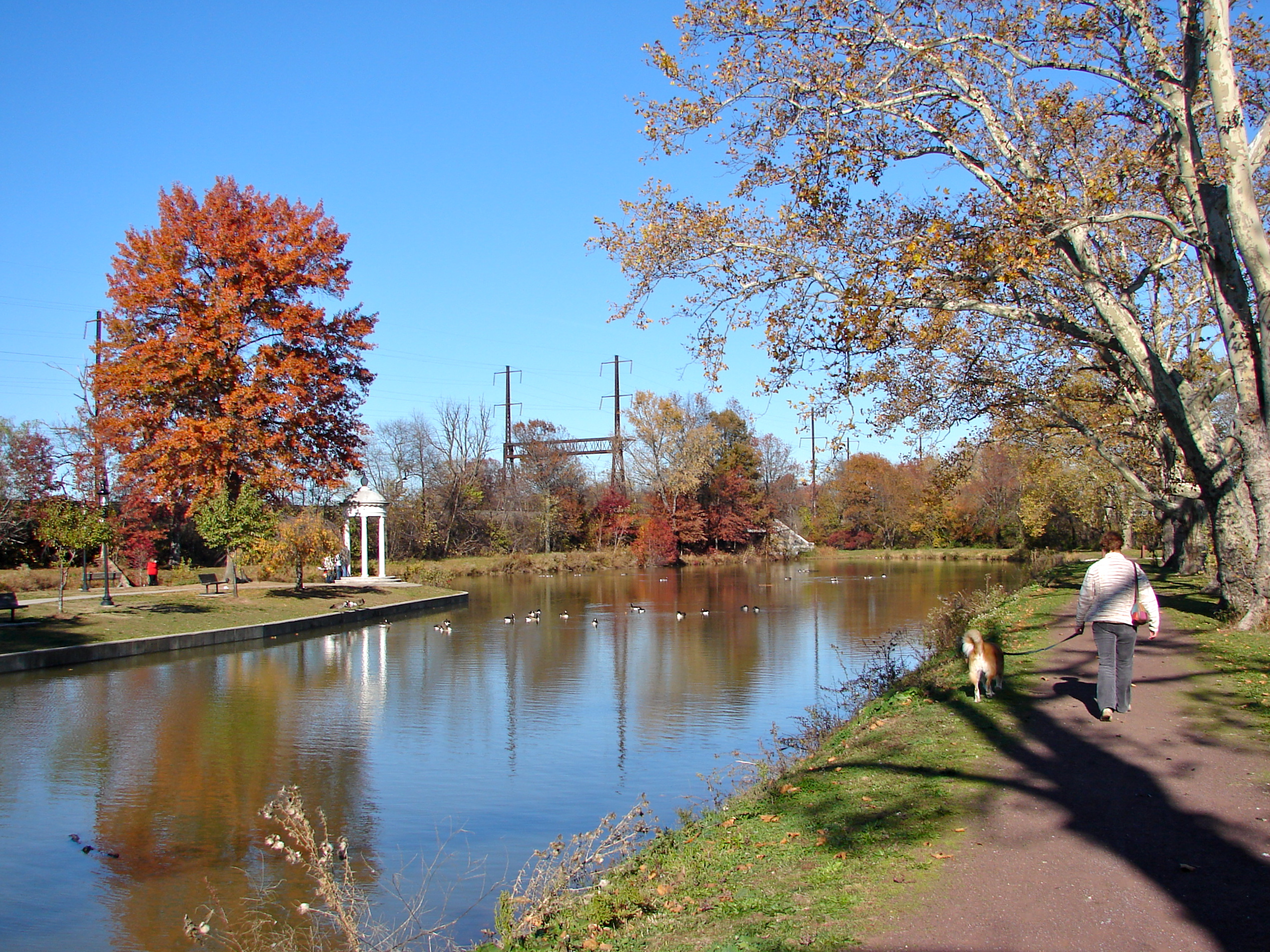 Delaware Canal State Park in Bristol, Pennsylvania, just off Jefferson Street. Part of "Delaware Division of the Pennsylvania Canal" NRHP site, on the NRHP since October 29, 1974. Canal parallels the west bank of the Delaware River from Easton (north) to Bristol (south). This is close to the south end. Canal extends north into Northampton County